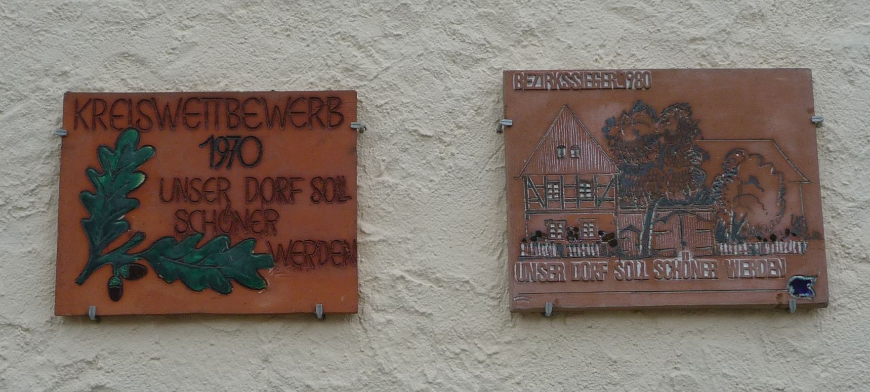 Frankendorf (Buttenheim)